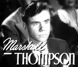 Cropped screenshot of Marshall Thompson from the trailer for the film Twice Blessed